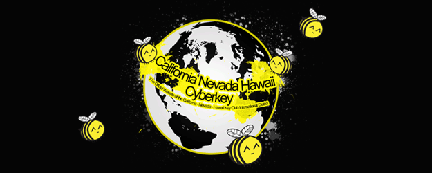 California-Nevada-Hawaii District of Key Club International Logo